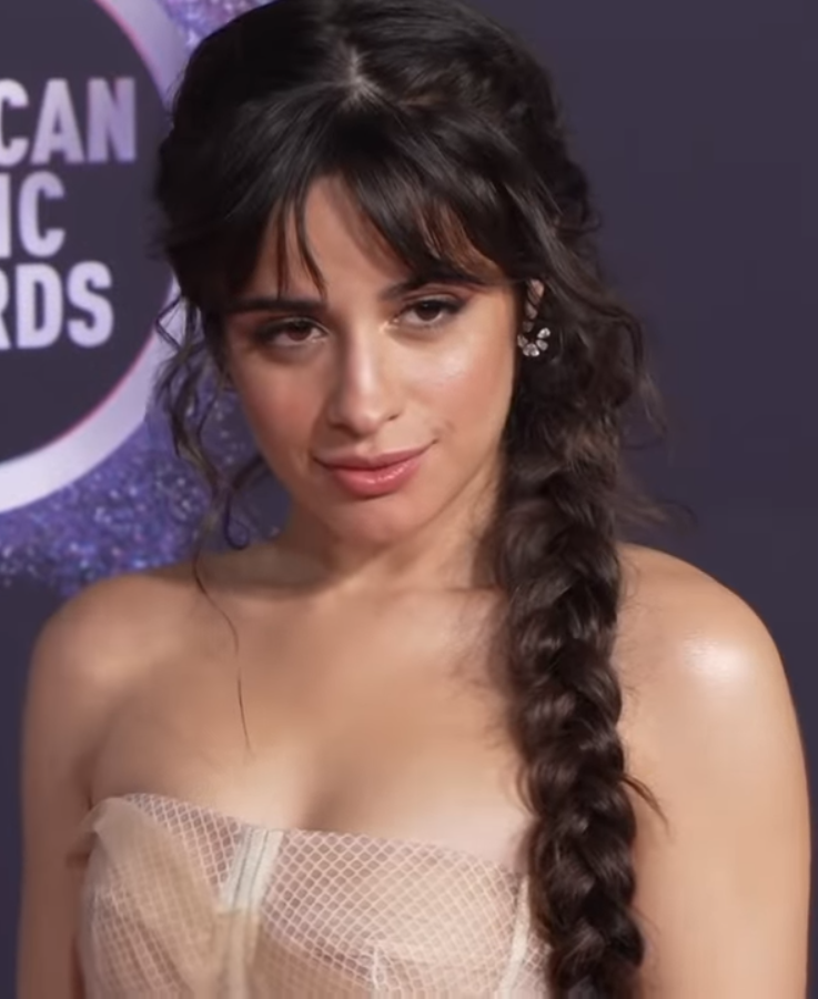 Camila Cabello at the 2019 American Music Awards red carpet